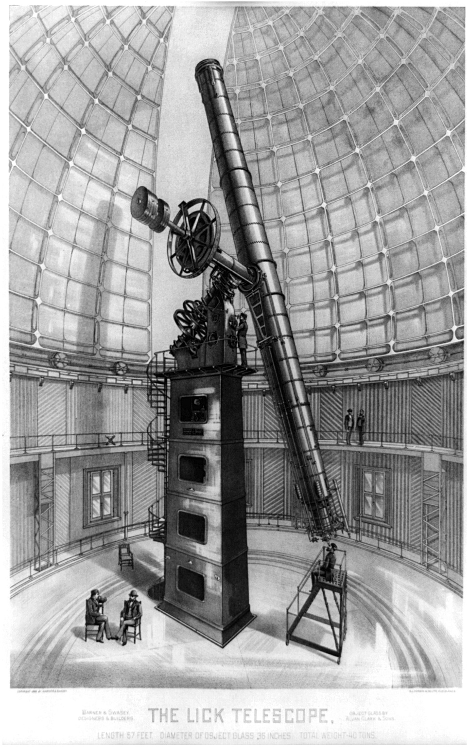 "The Lick telescope, length 57 feet, diameter of object glass 36 inches, total weight 40 tons" Drawing of 36-inch refracting telescope at Lick Observatory. Objective lens made by Alvan Clark & Sons; mount by Warner & Swasey Company.